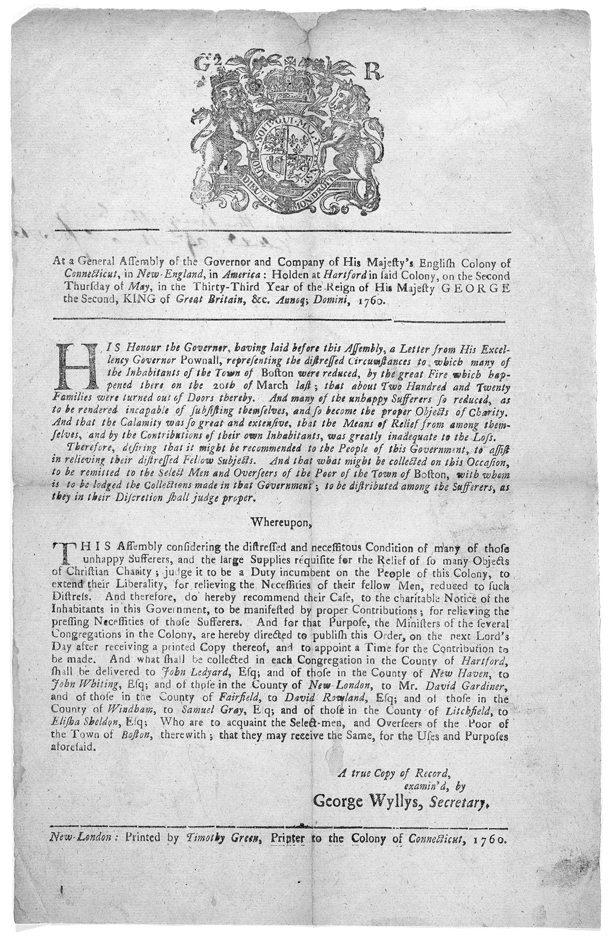 Order of the General Assembly of Connecticut Colony, for the purpose of raising donations for the town of Boston following the Great Boston Fire of 1760.